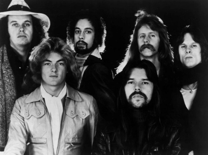 Photo of Bob Seger and the Silver Bullet Band.